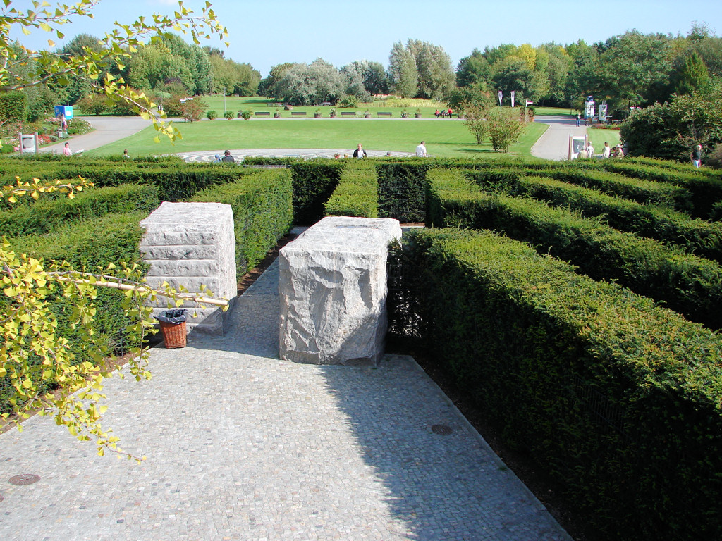 labyrinth in Erholungspark Marzahn